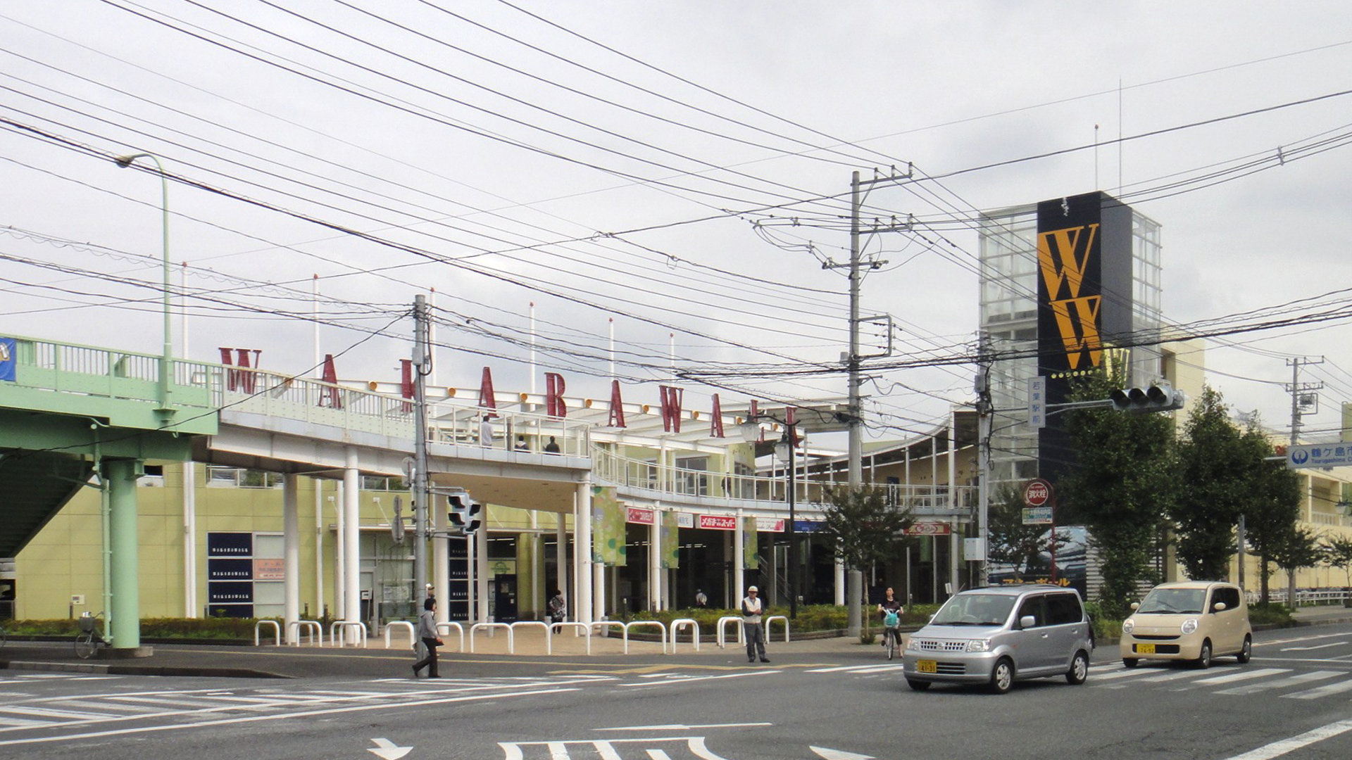 Wakaba Walk shopping centre in front of Wakaba Station, in Tsurugashima, Saitama, Japan